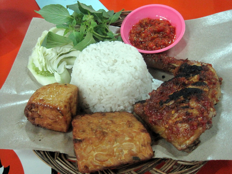 Tahu and tempe (soybean cakes) and ayam bakar (roast chicken).